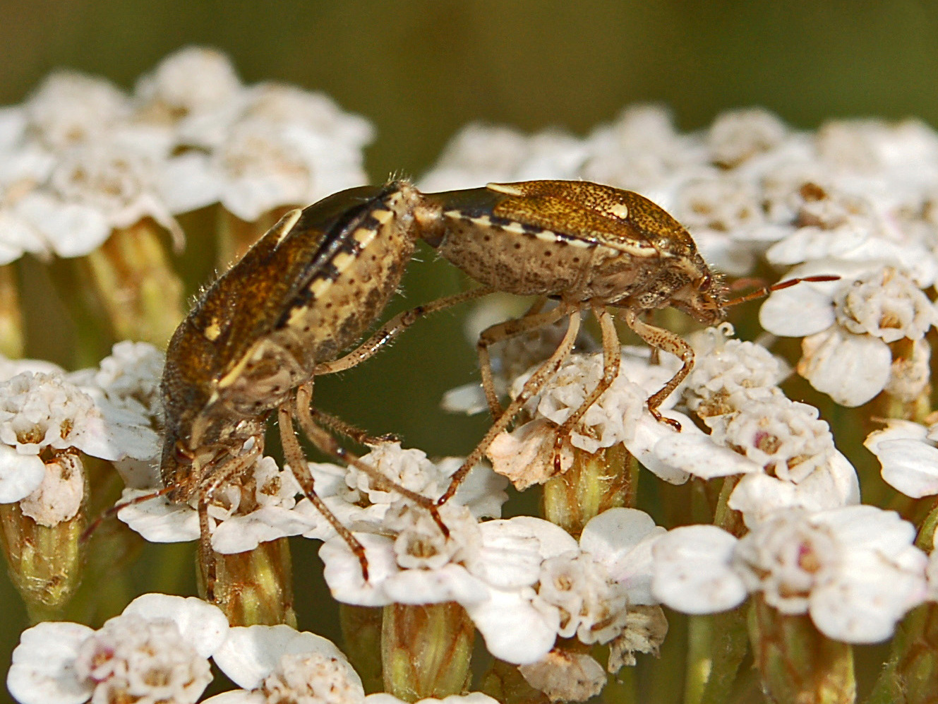 Staria lunata, mating Couple. Genova, Italy